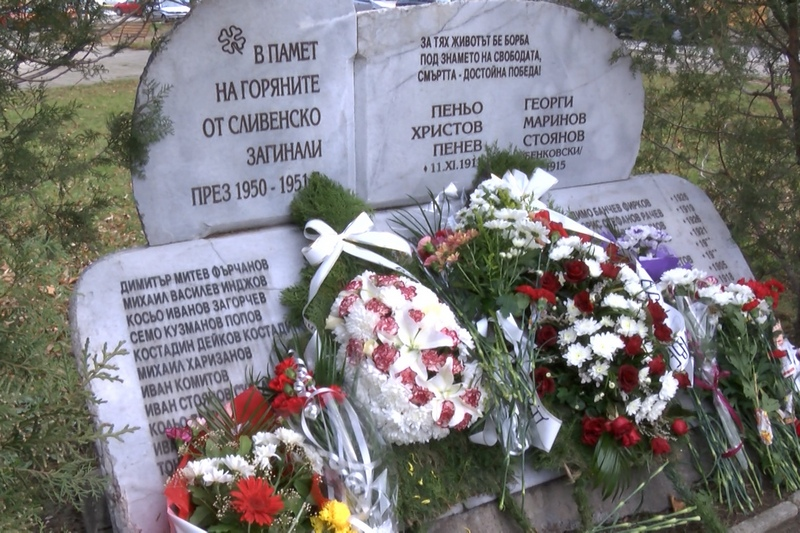 Monoment of goryans in Sliven city